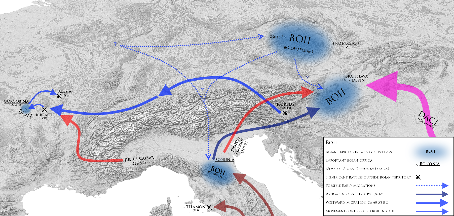 Map showing various movements and settlements of the Boii